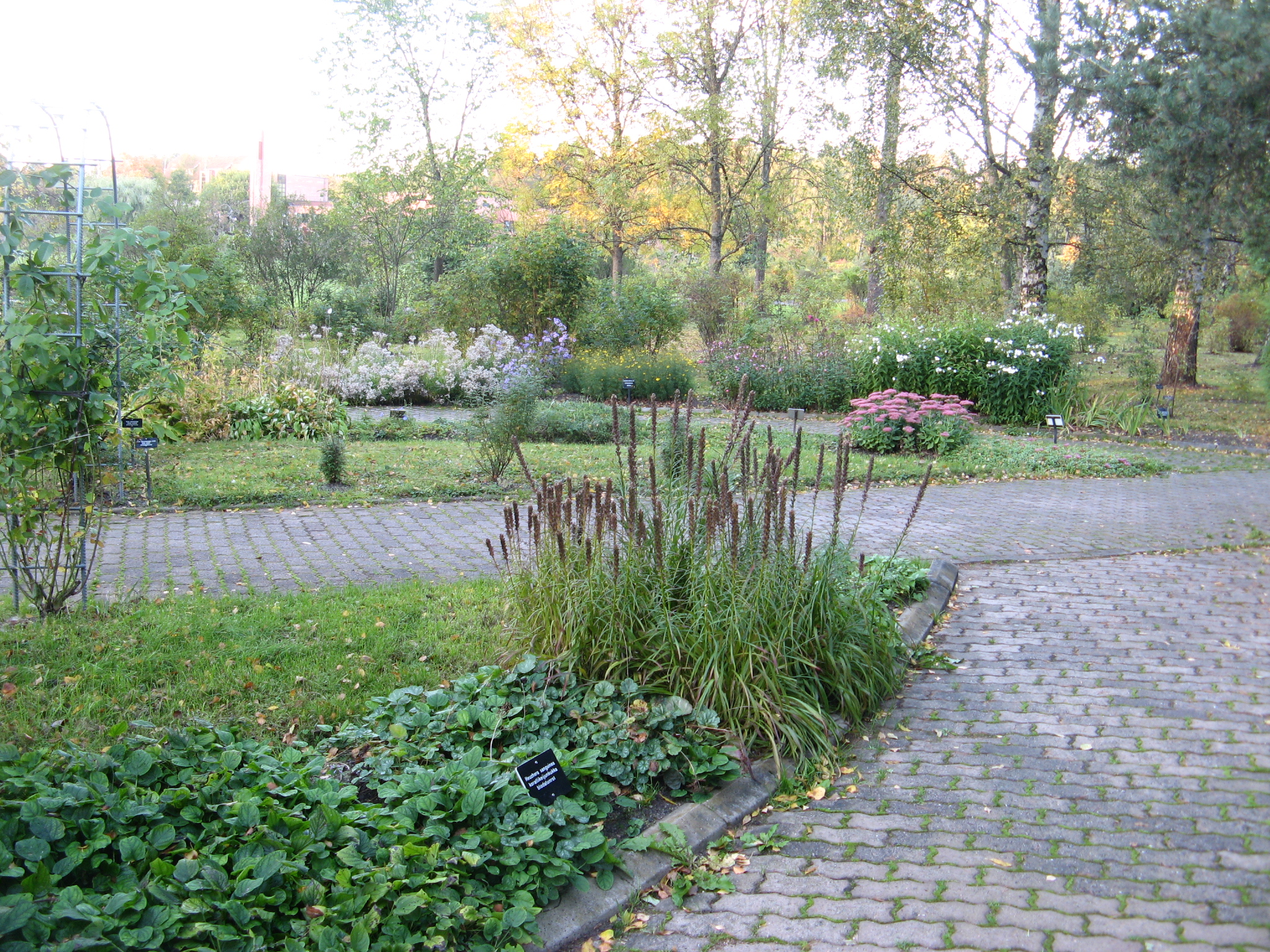 View from the park Tähkäpuisto in Turku. Henrik's church in the background